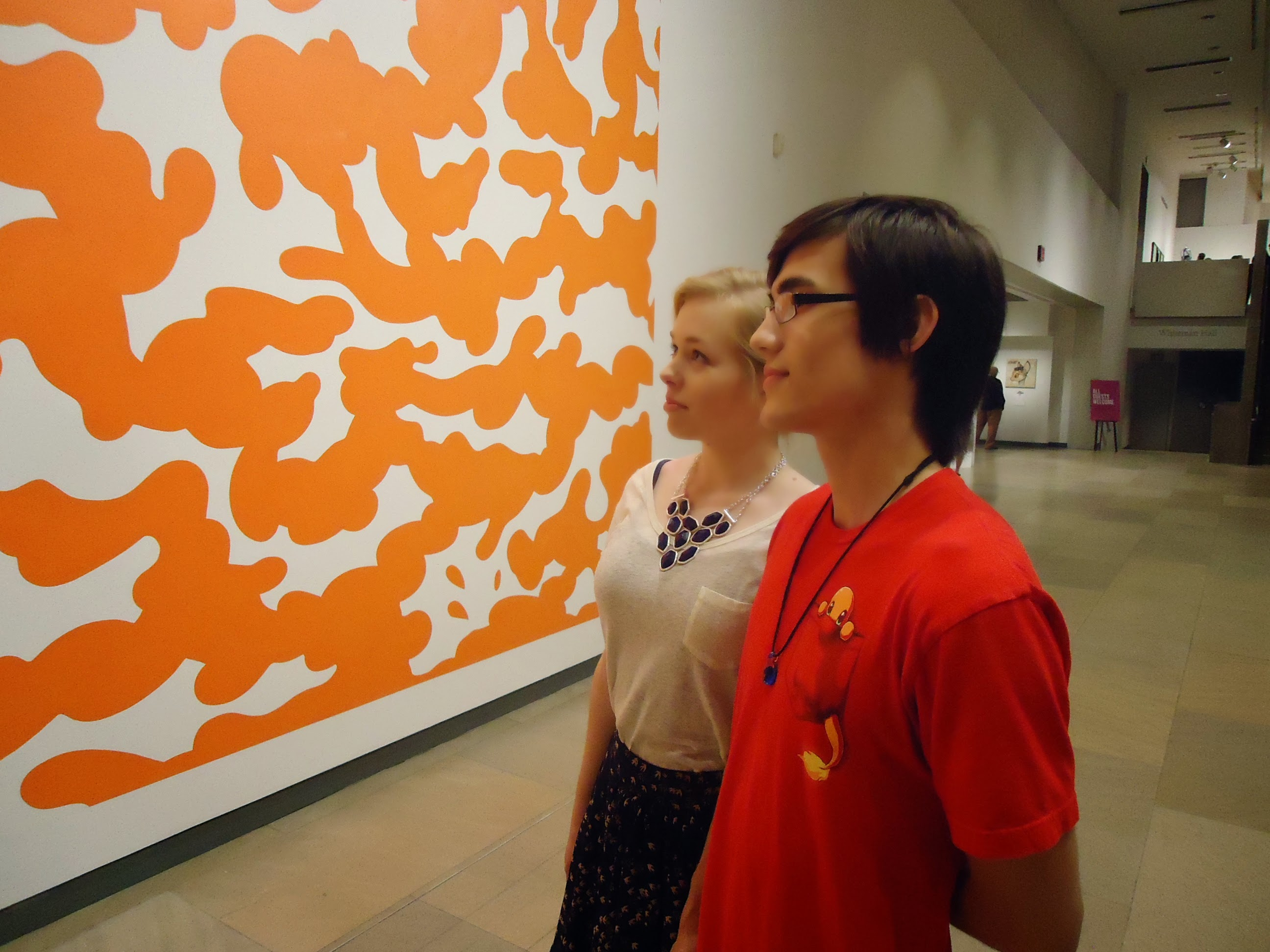 Young couple looking at a painting at the Phoenix Art Museum.